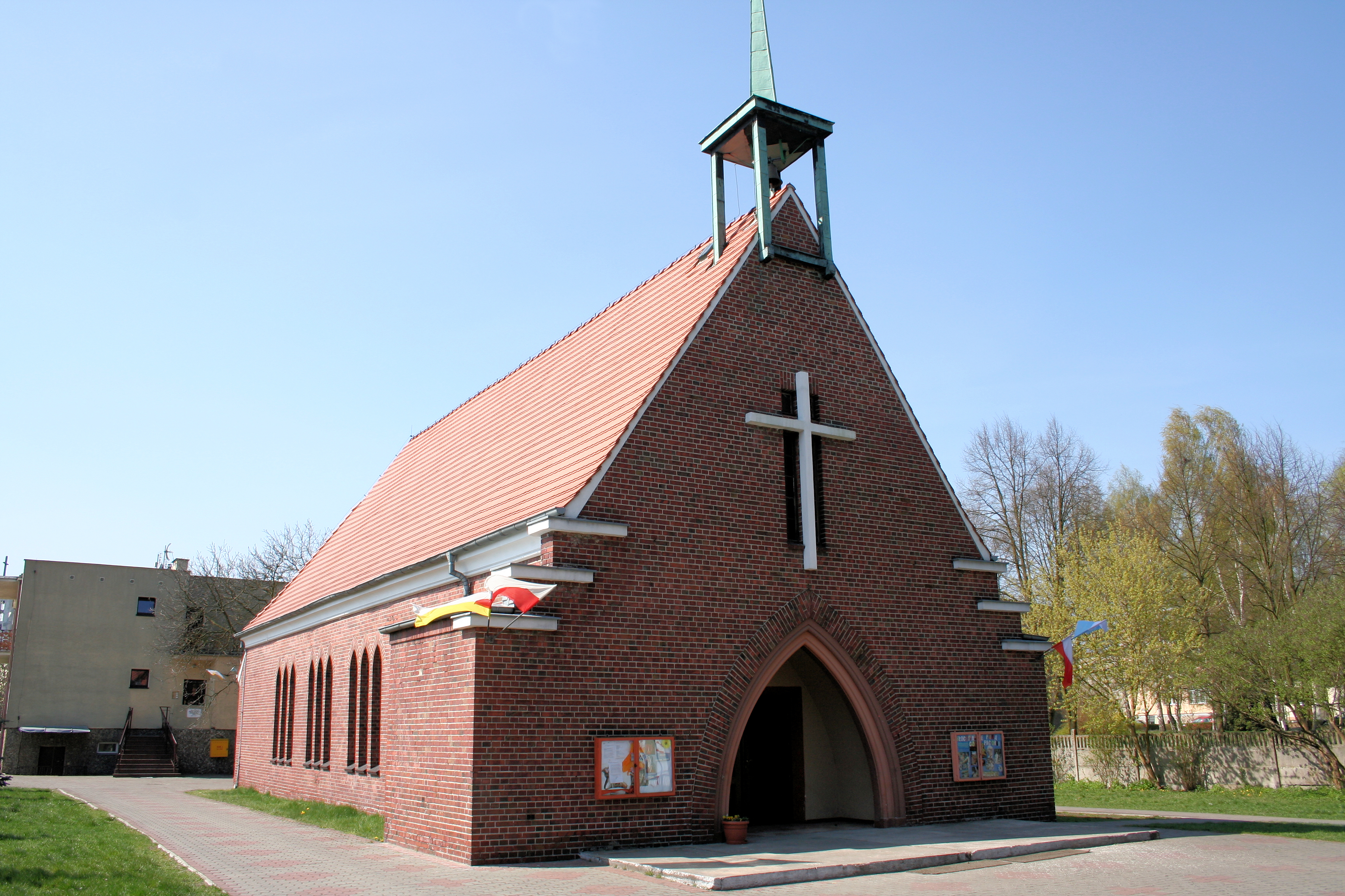 St. Anthony of Padua Church in Dębno